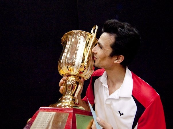 image